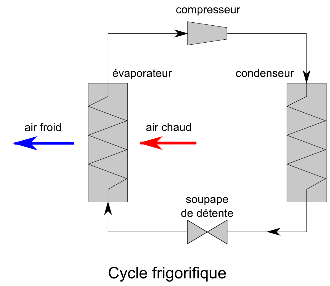 Traduction de